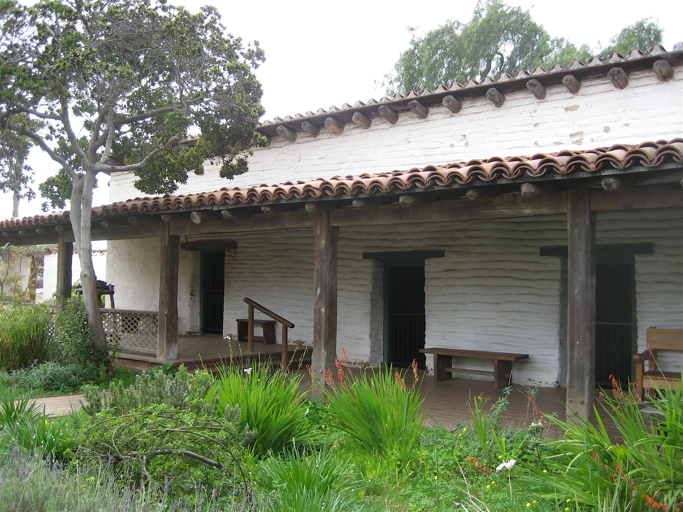 One wing of Casa de Estudillo, as seen from the inner courtyard